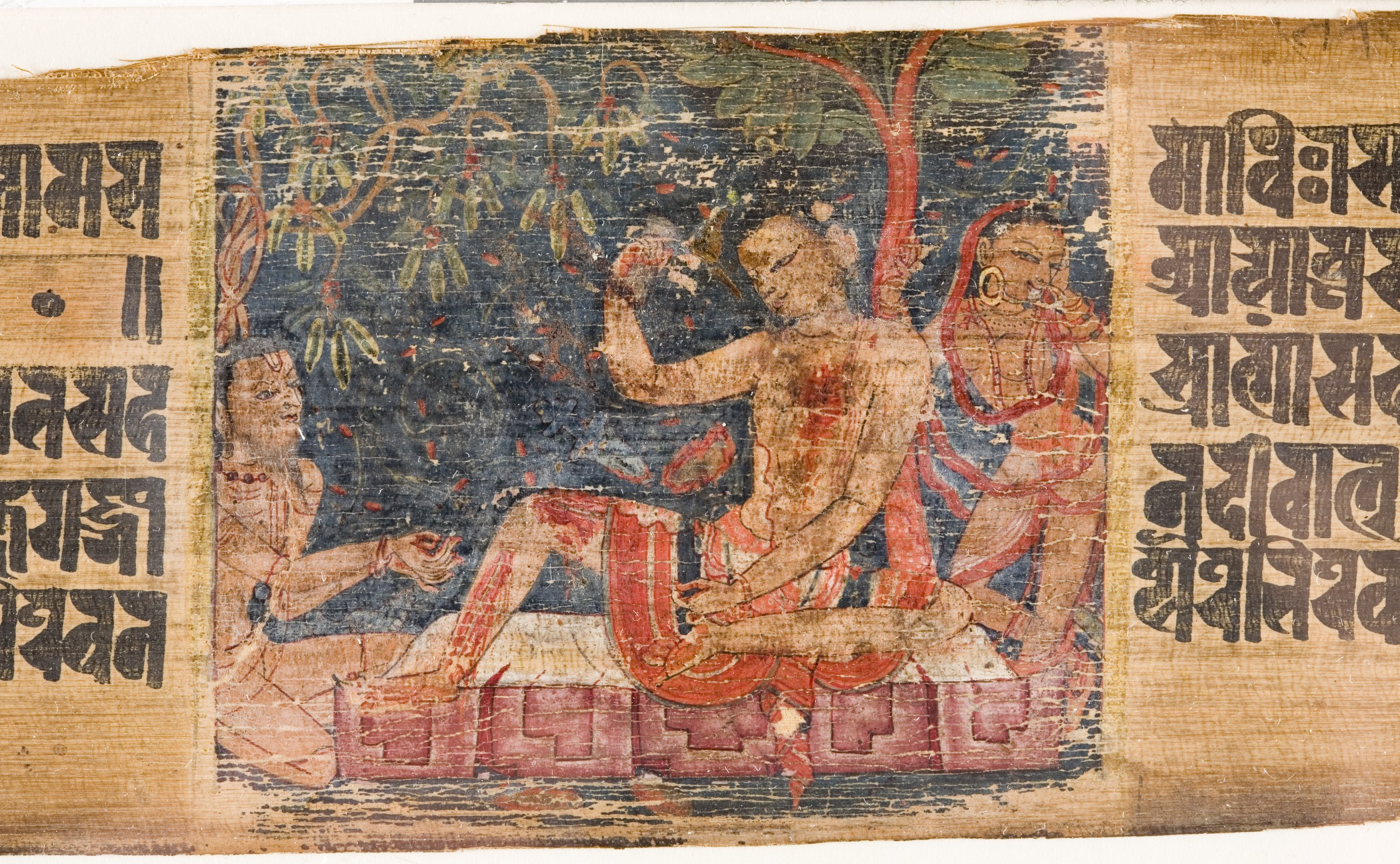 Nepal, 12th-13th century Books Ink and opaque watercolor on palm leaf A: 2 1/4 x 16 1/2 in.; 5.7 x 41.9 cm; B: 2 1/4 x 16 1/4 in.; 5.7 x 41.3 cm; C: 2 1/4 x 15 7/8 in.; 5.7 x 40.3 cm Gift of Paul F. Walter (M.86.345.11a-c) South and Southeast Asian Art